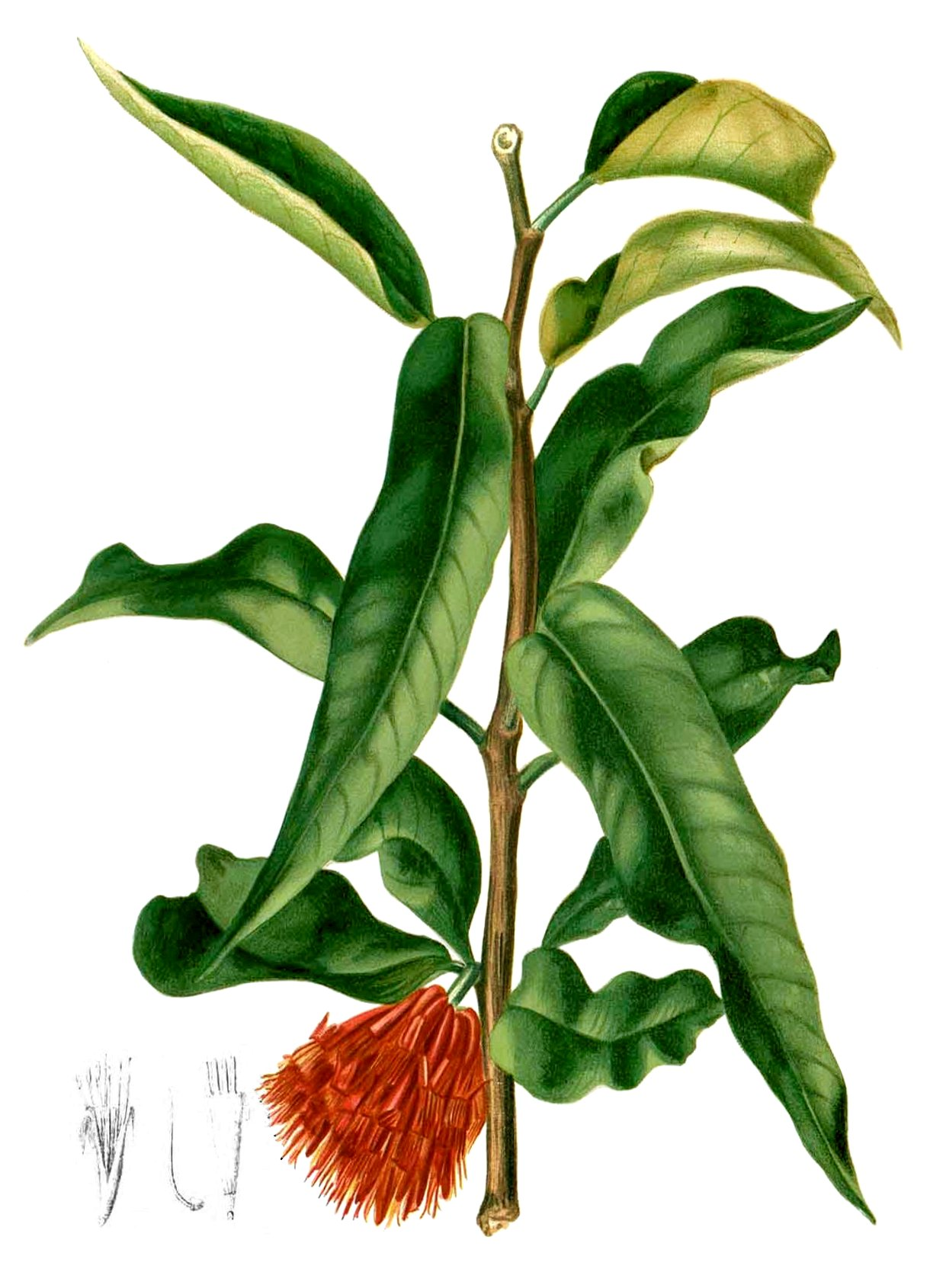 Loranthus malifolius, Plate from book